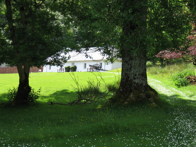 The Clan Cameron Museum at Achnacarry The Clan Cameron museum seen from the road.